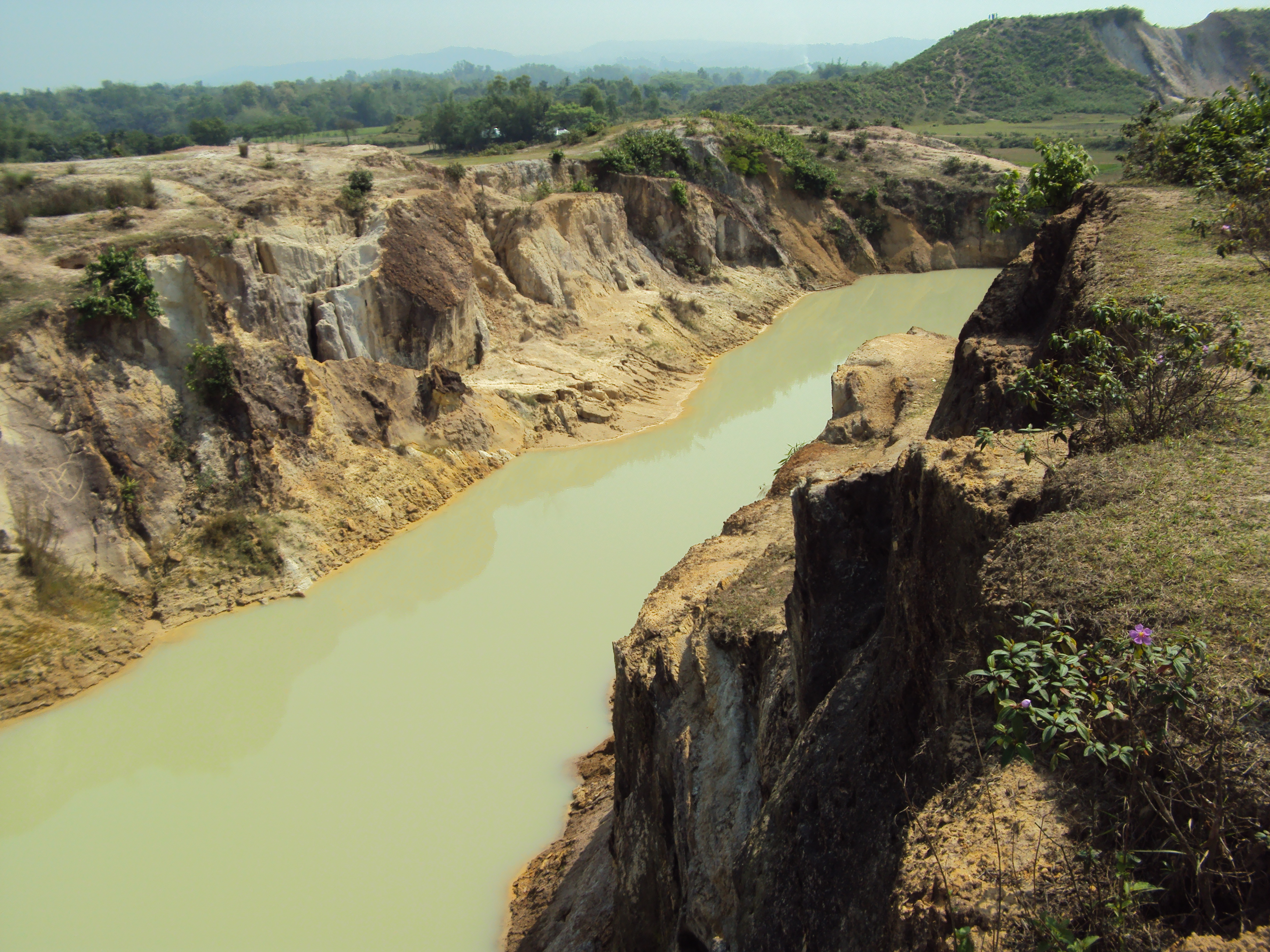 Birishiri Tourist Spot: Natural Lake